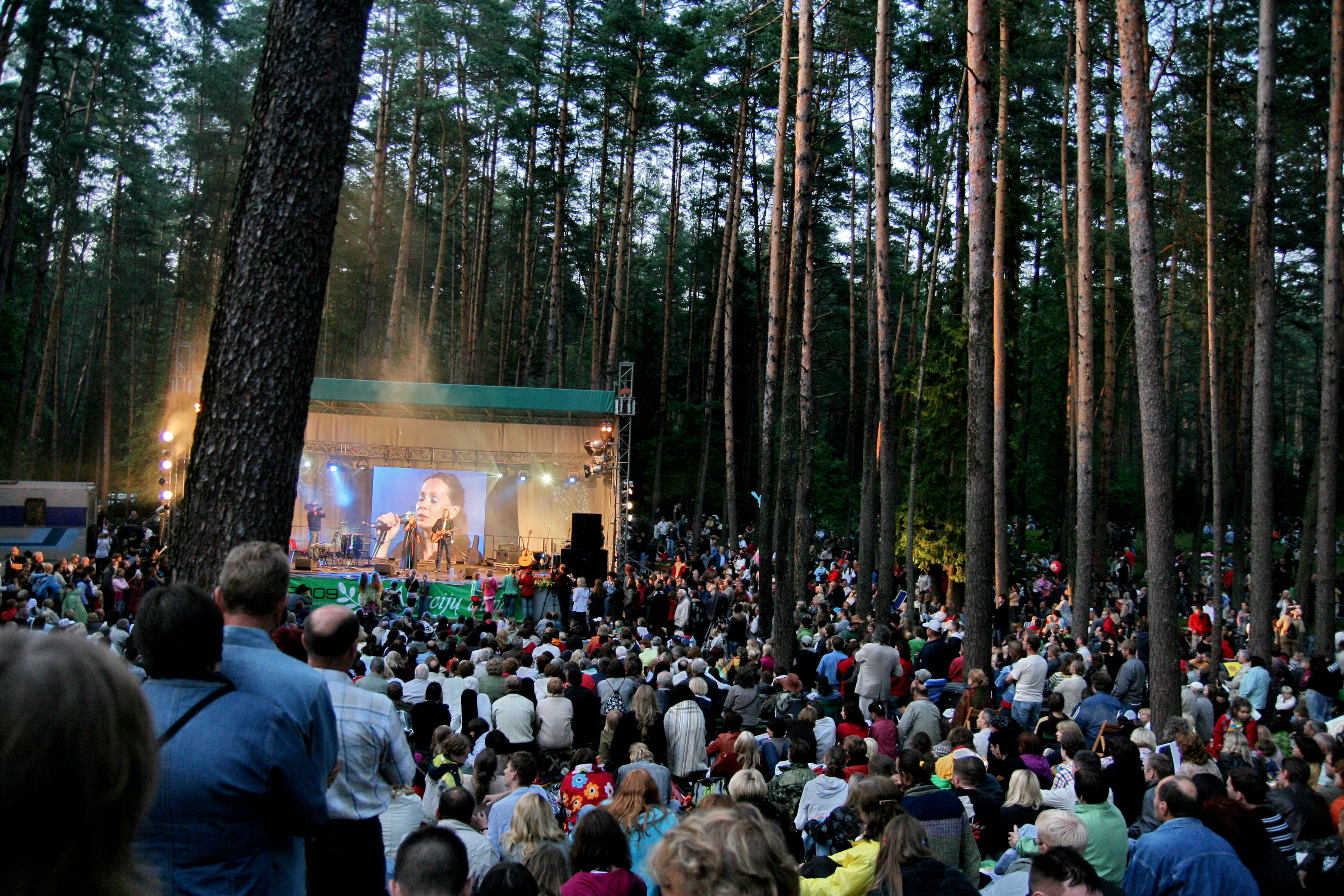 Akacijų alėja - sung poetry festival in Kulautuva